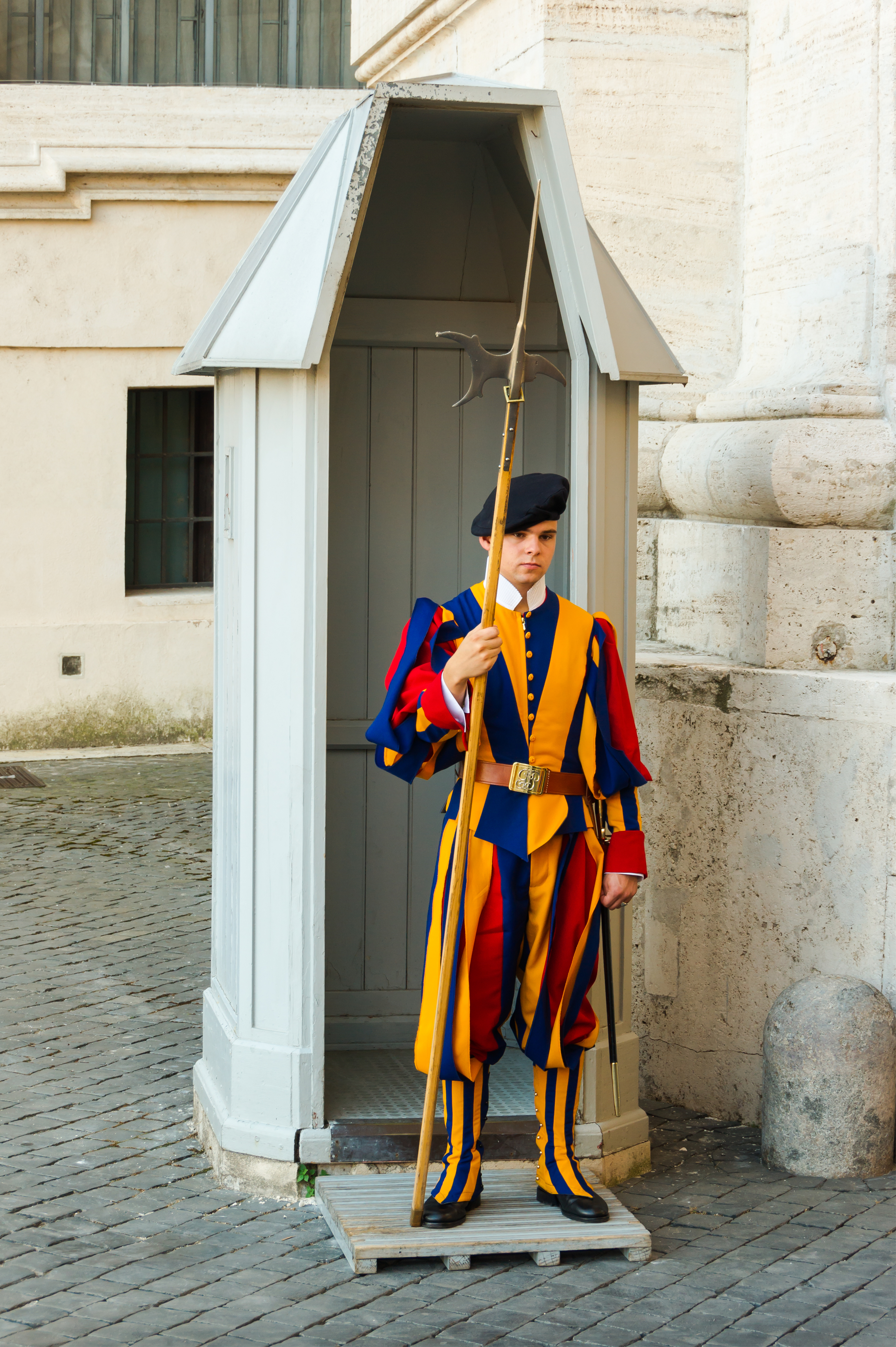 A swiss guard. Vatican City.